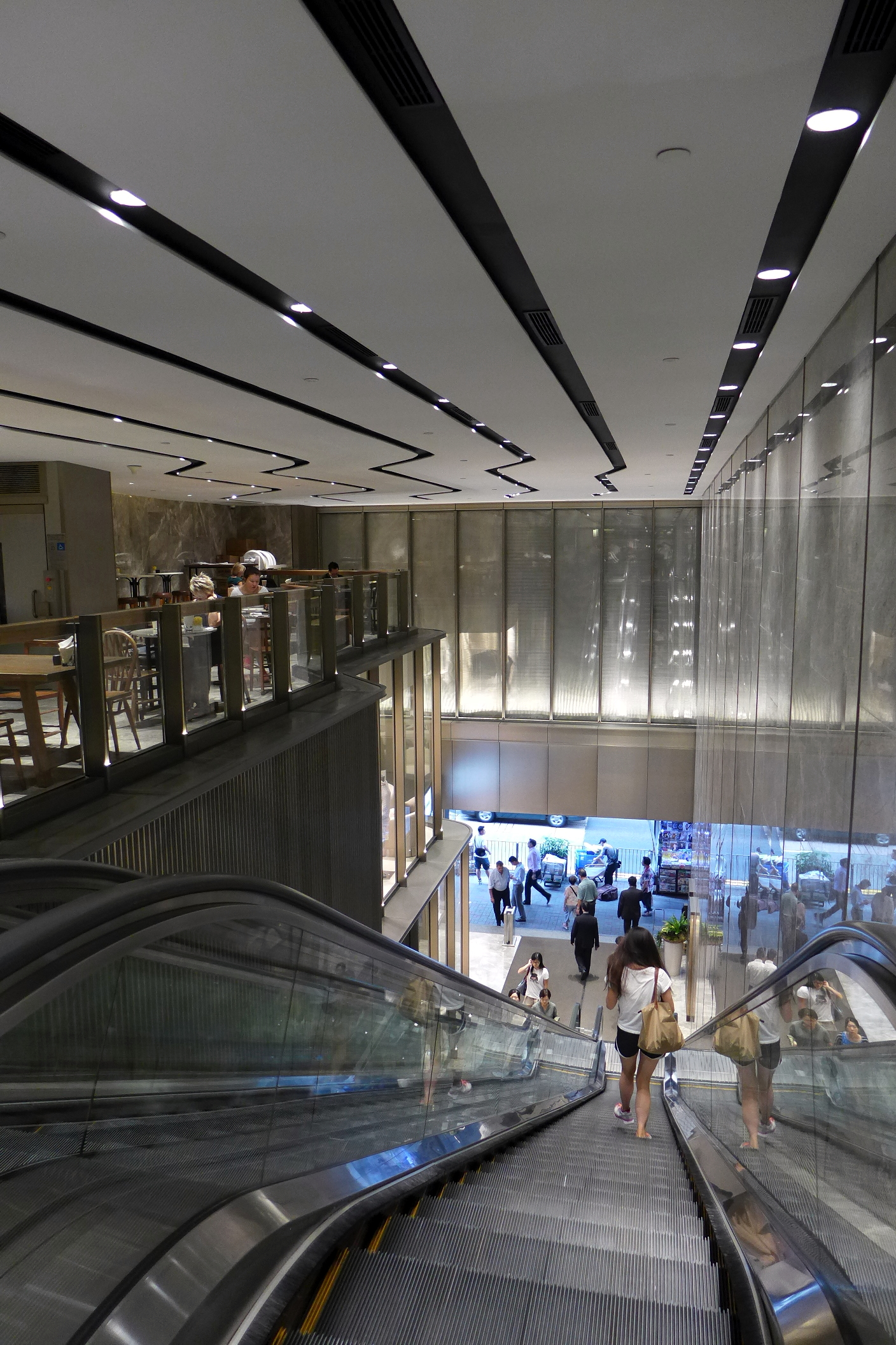 New World Tower Interior